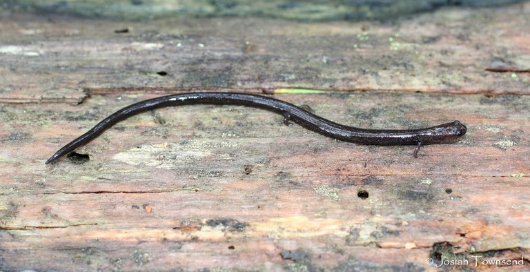 Oedipina kasios